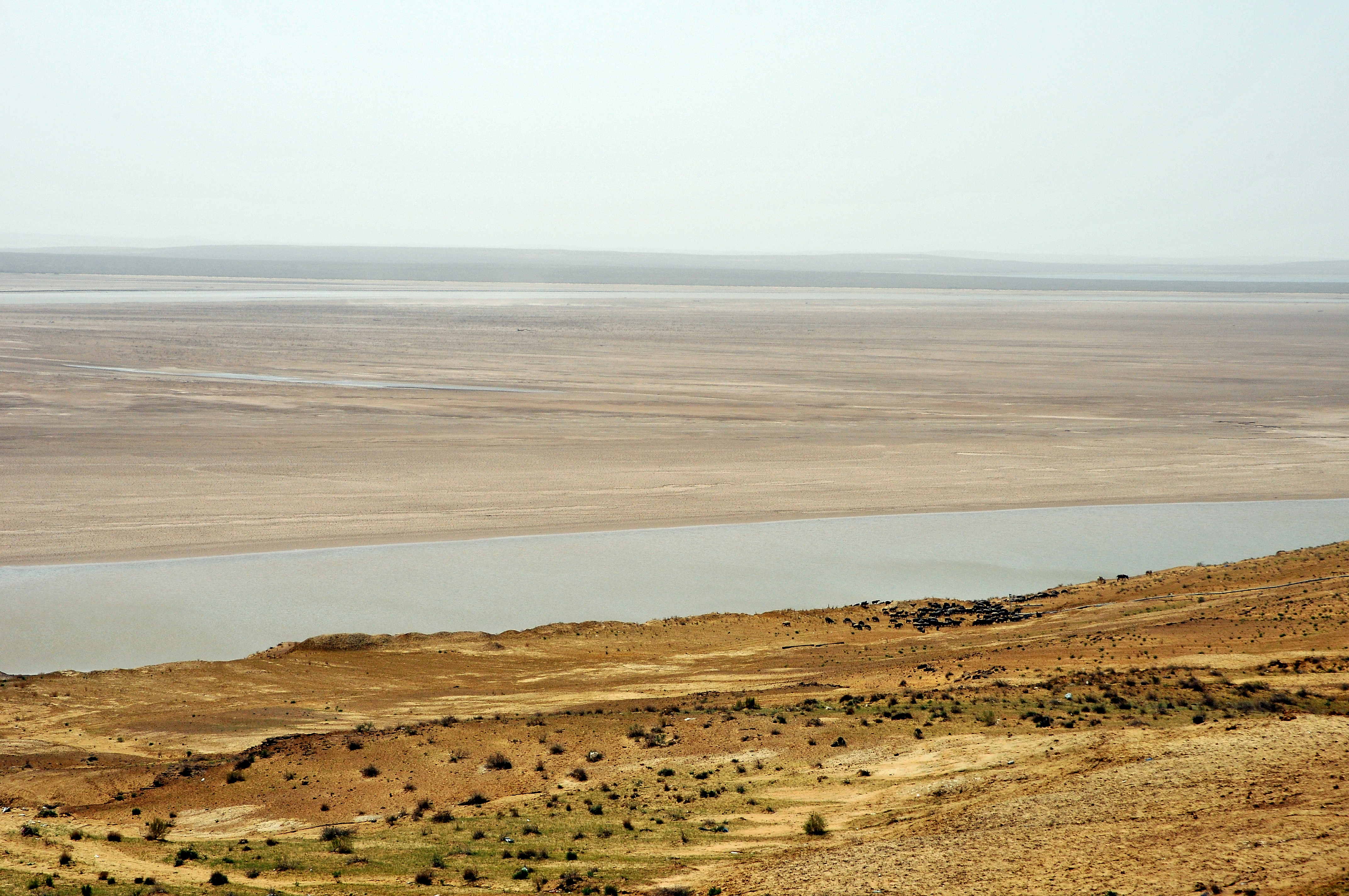 Amu Darya banks at Uch-Uchak (Xorazm, Uzbekistan)